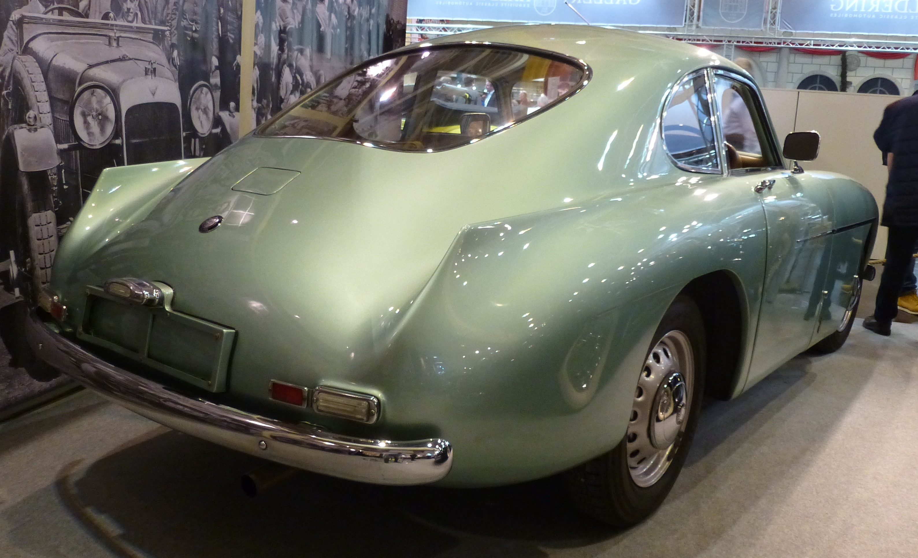 Bristol 404 1954